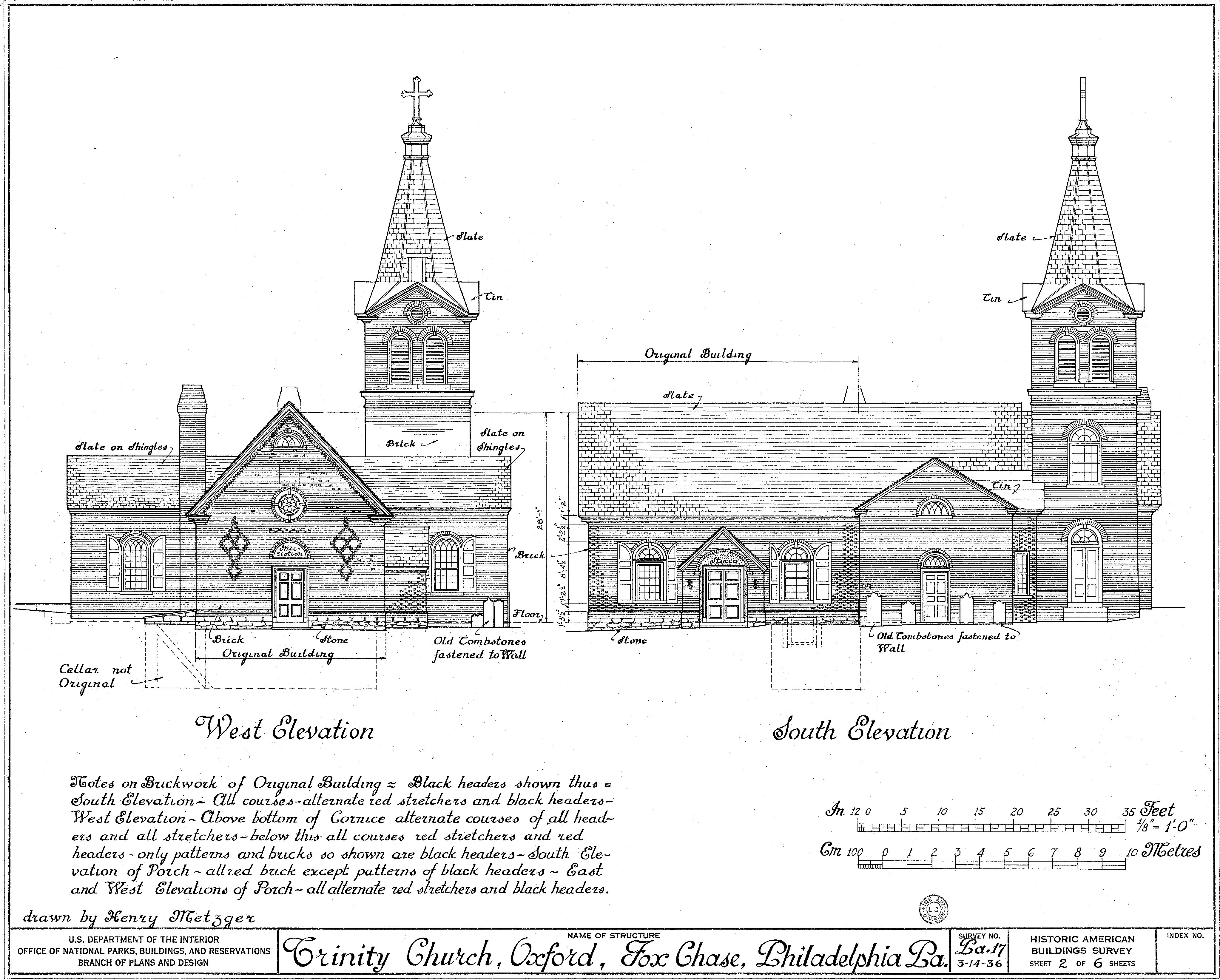 Trinity Church, Oxford now in Philadelphia, PA. Built 1711. At 6900-6902 Oxford Street, Philadelphia. On Philadelphia Register of Historic Places, but not NRHP